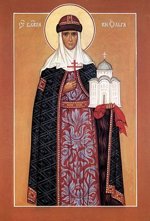 зображення княгині